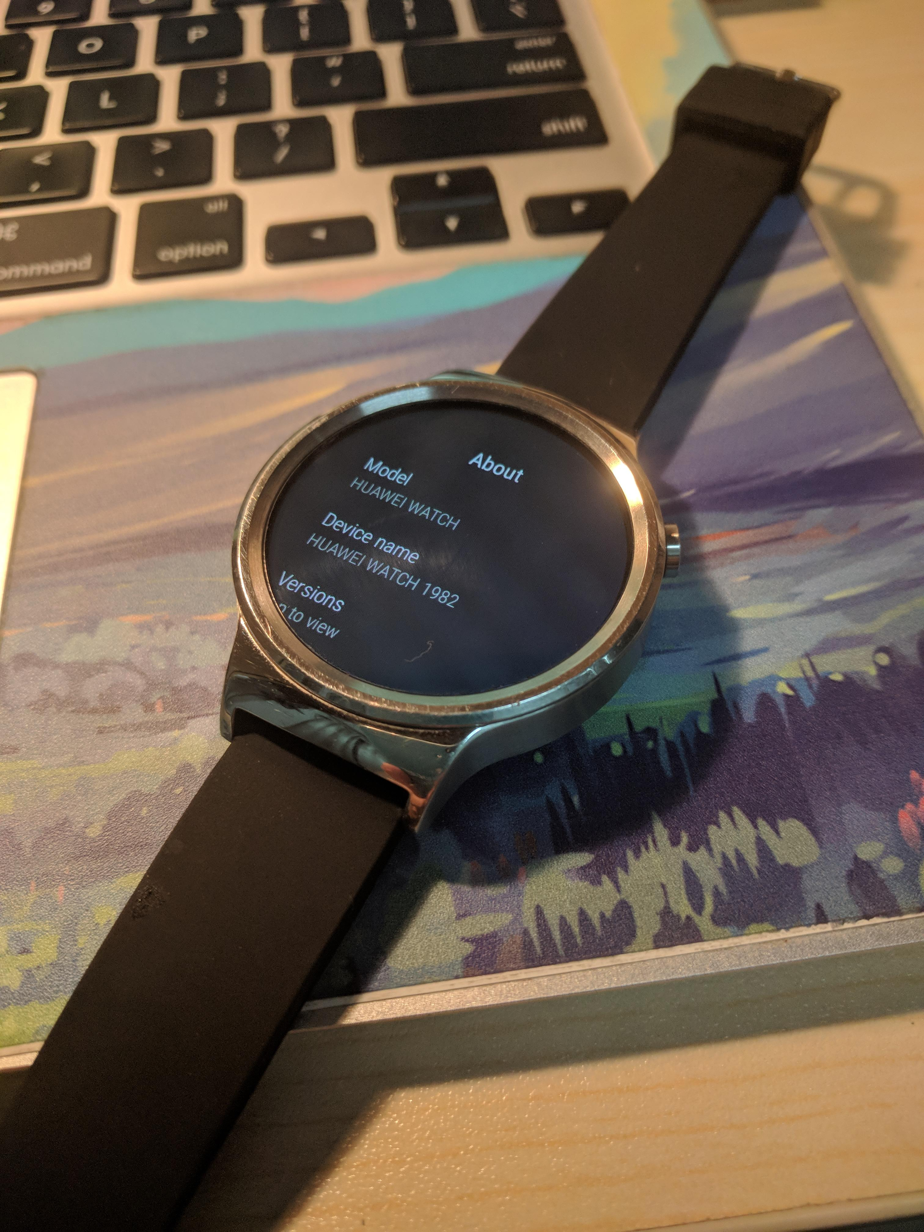 Huawei Watch Version 2